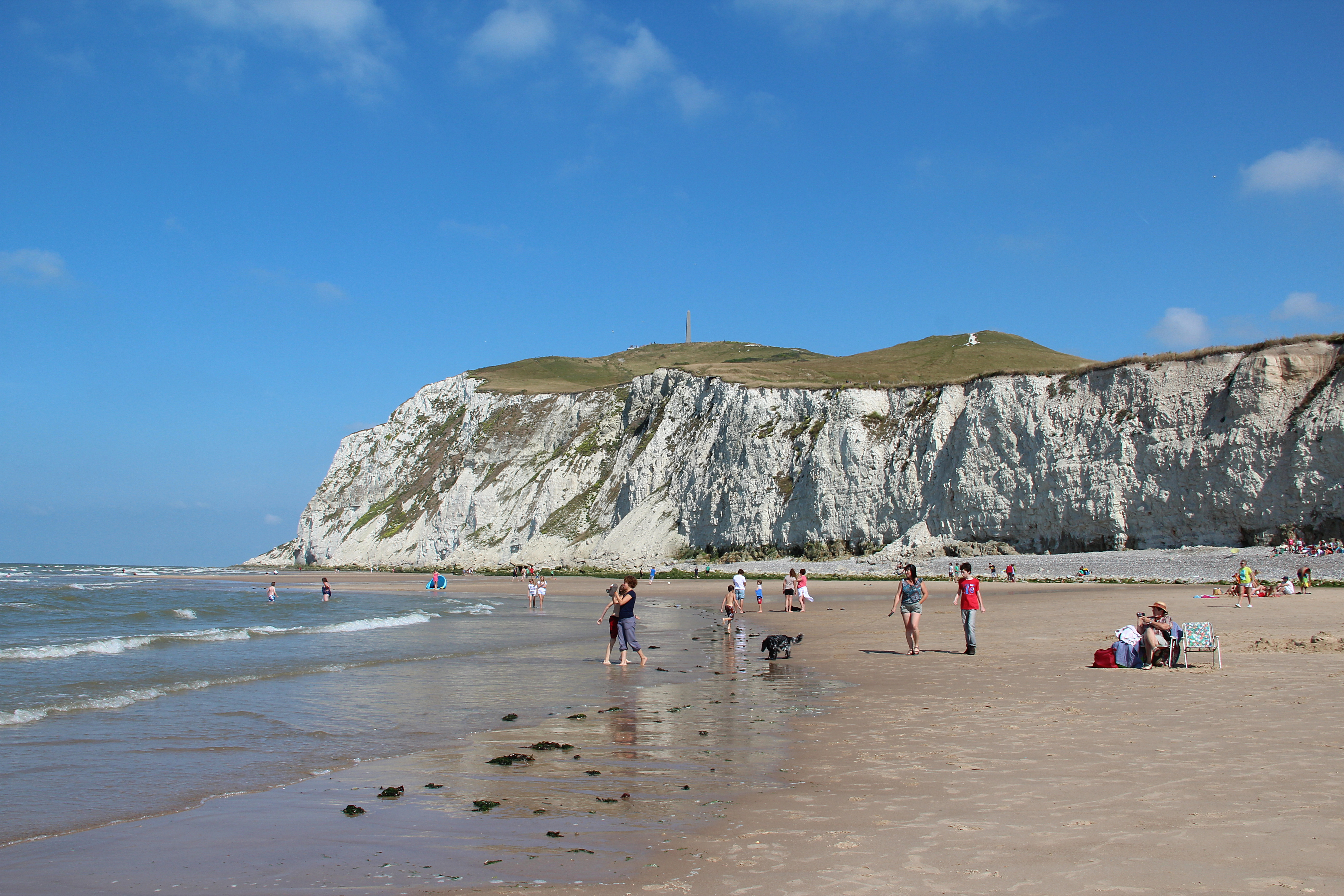 The Cap Blanc Nez (Cape White Nose), the Channel, and the beach of Escalles (Pas-de-Calais), France.